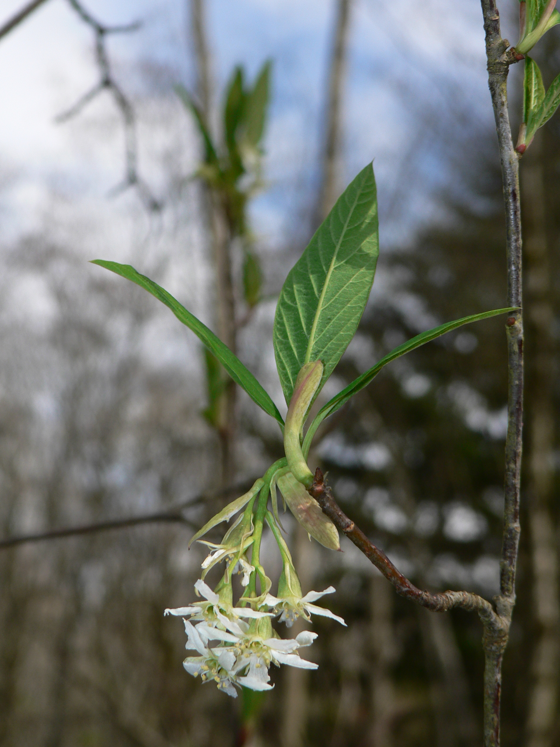 Indian Plum blossoms and leaves